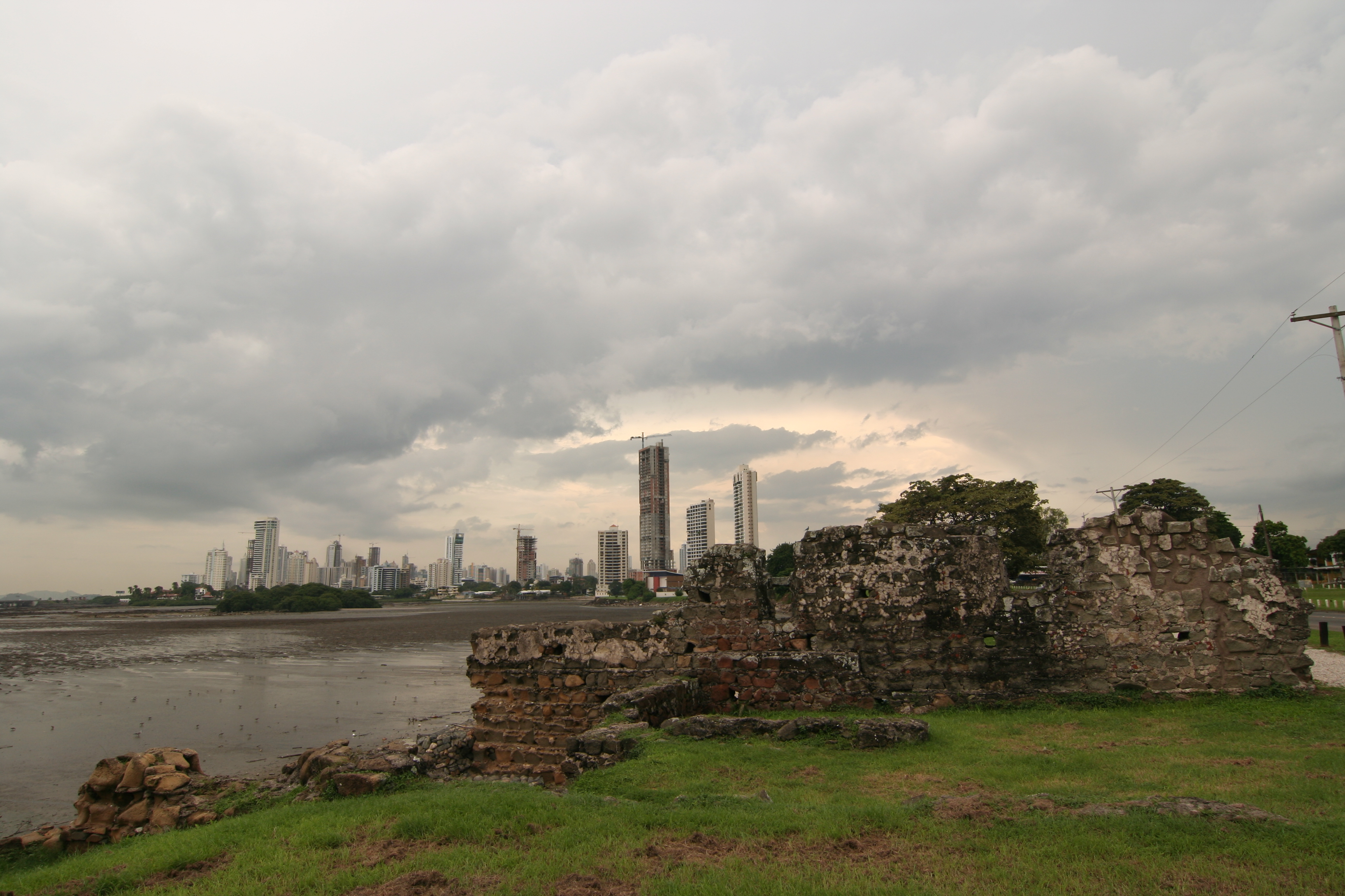 Contrast between the old and the new in Panama City, Panama.